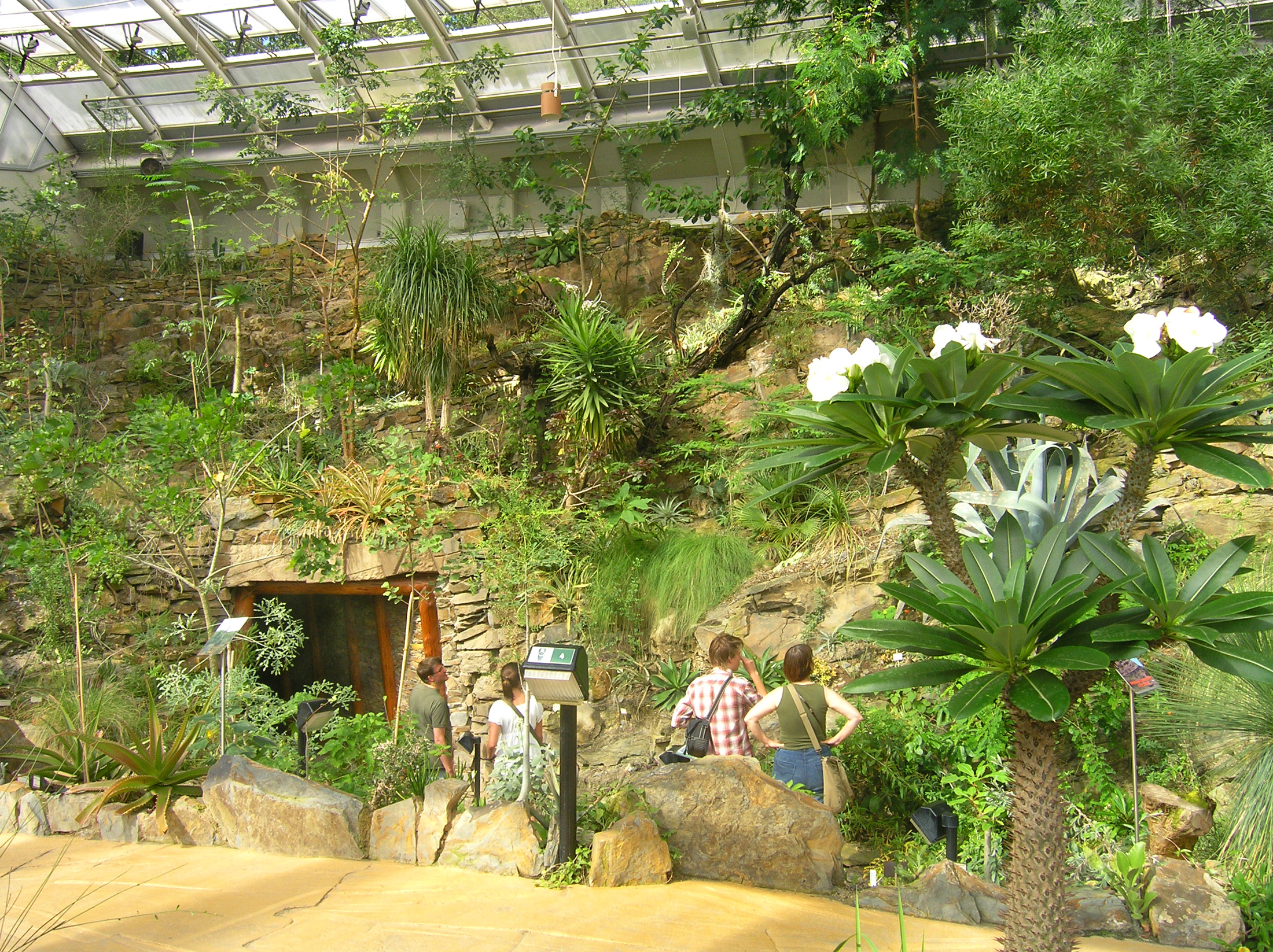 Succulent section of Fata Morgana Greenhouse at Prague Botanic Garden at Troja, Prague